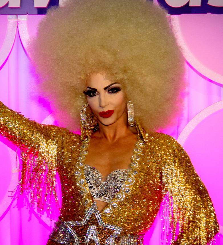 Alyssa Edwards at DragCon, April 2017